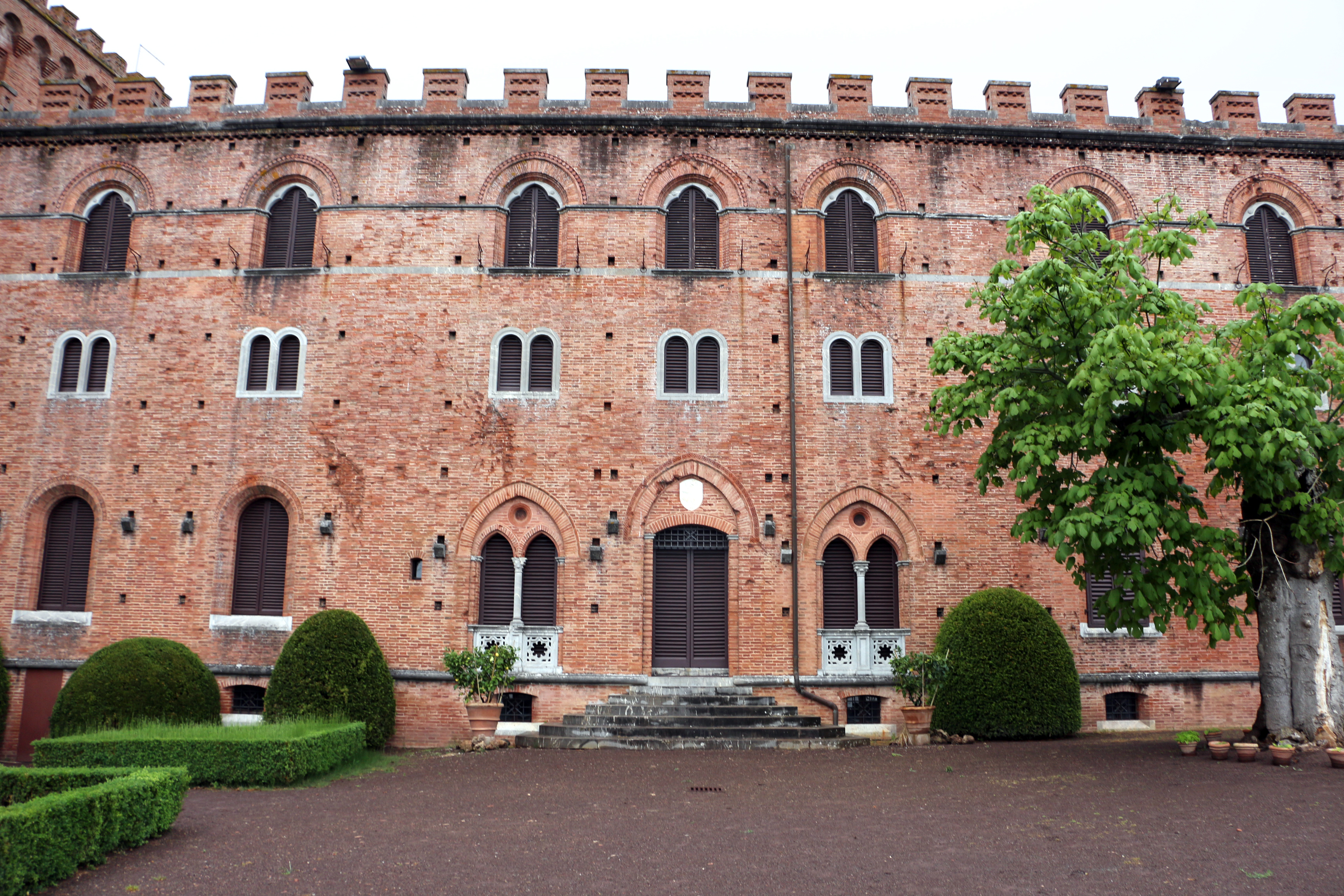 Castello di Brolio